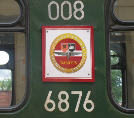 Logo of Bānītis at passenger car, Latvia